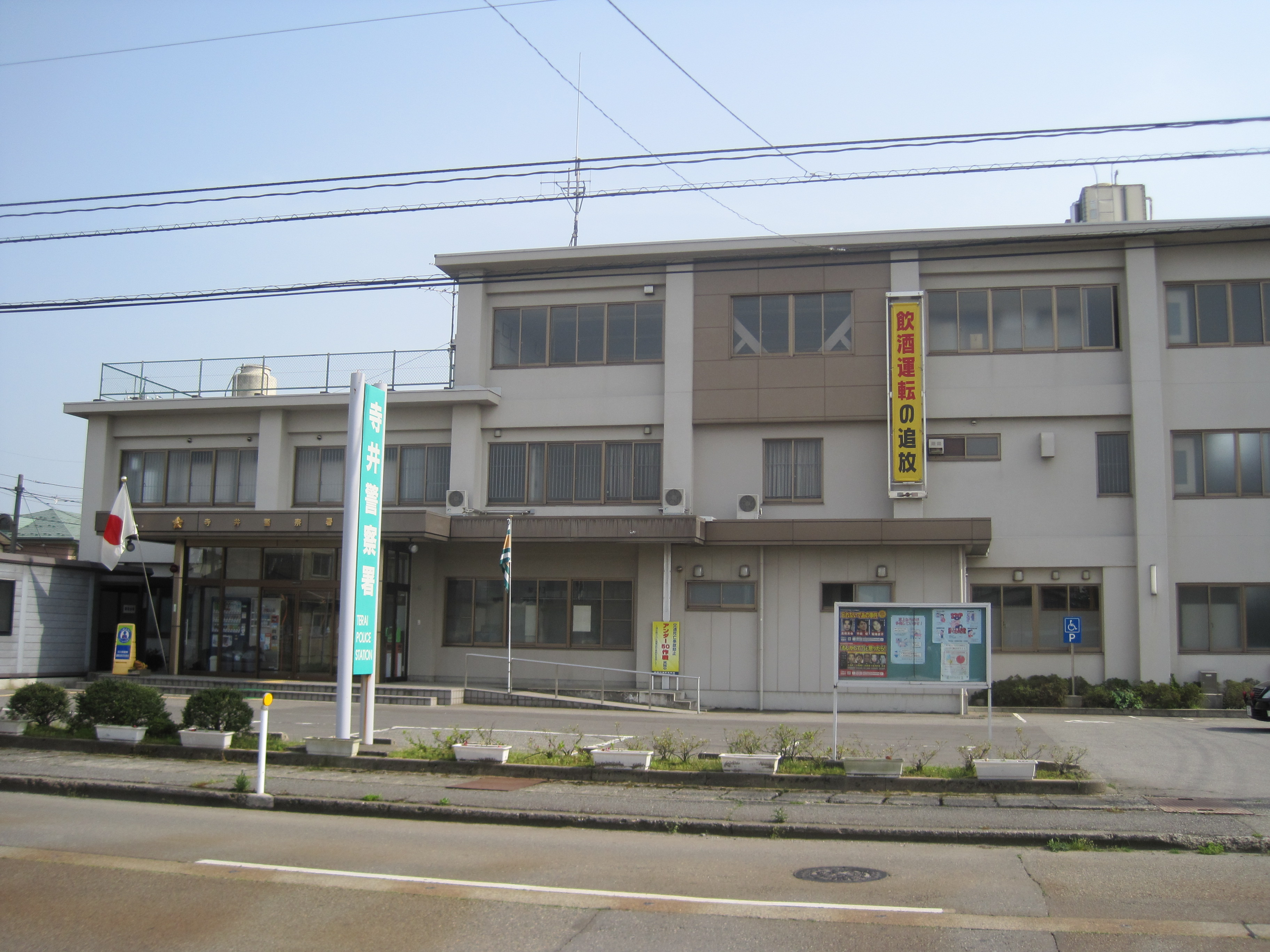 Terai Police Station(Nomi city, Ishikawa prefecture)